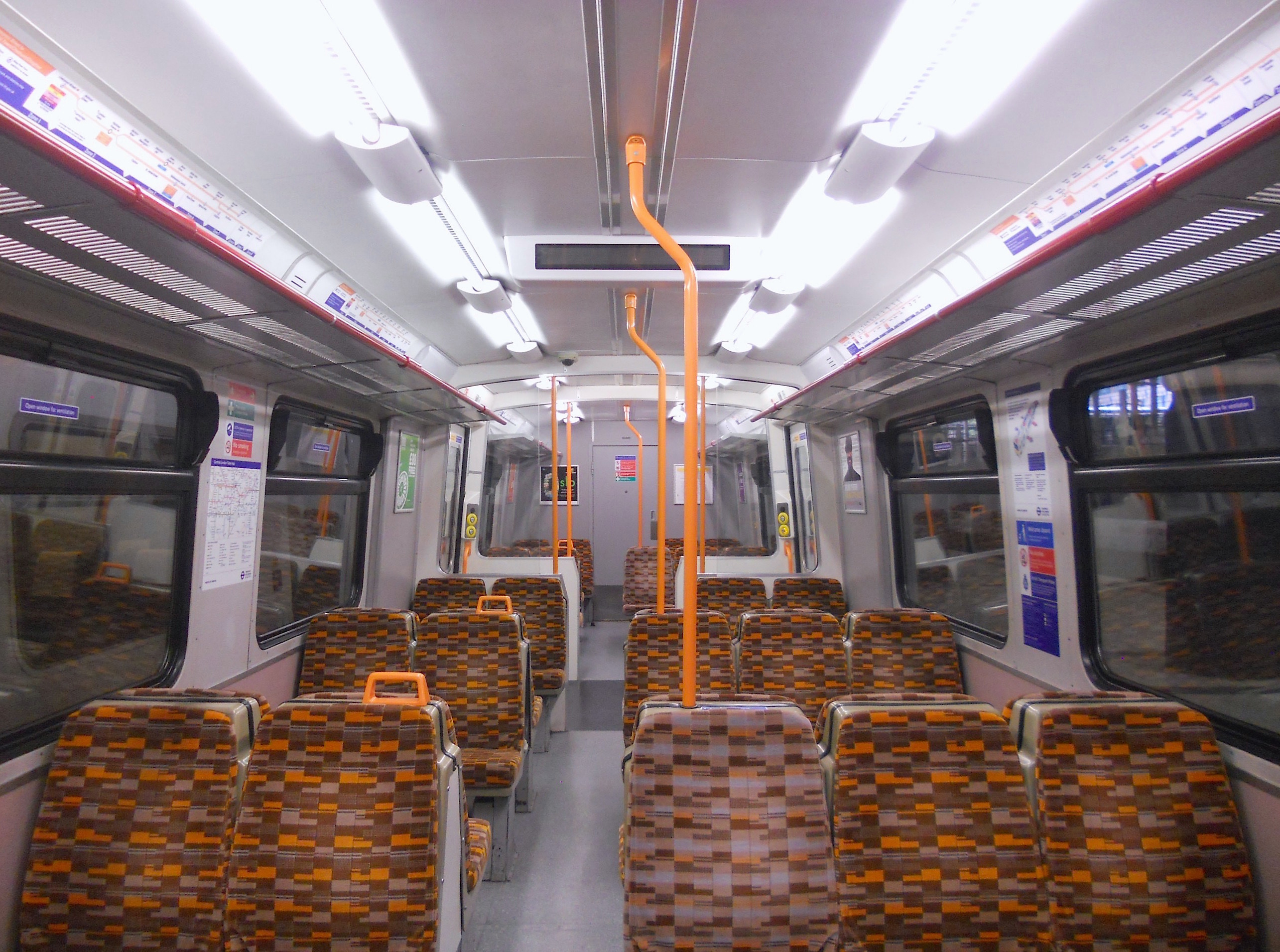 The interior of a London Overground refreshed Class 315